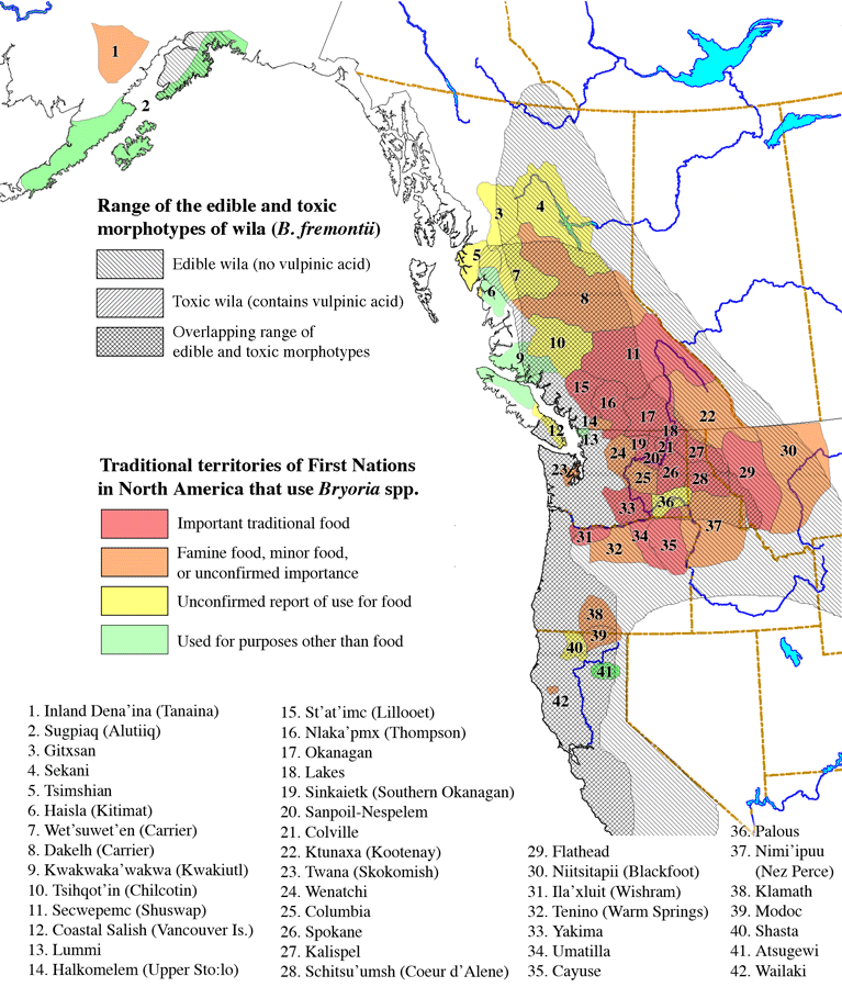 Map showing traditional use of wila (Bryoria fremontii)